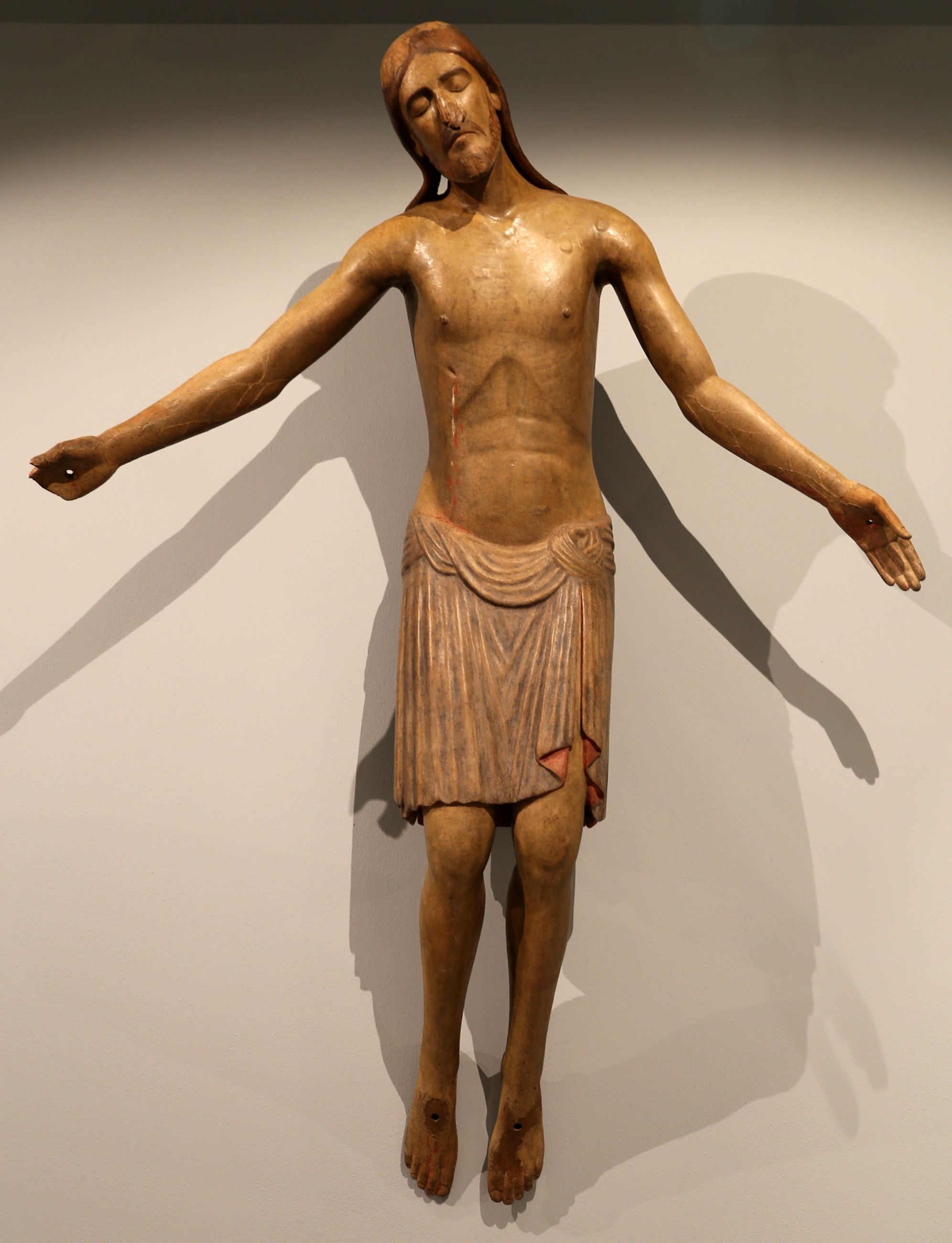 Sculptures in the Museo nazionale d'Abruzzo